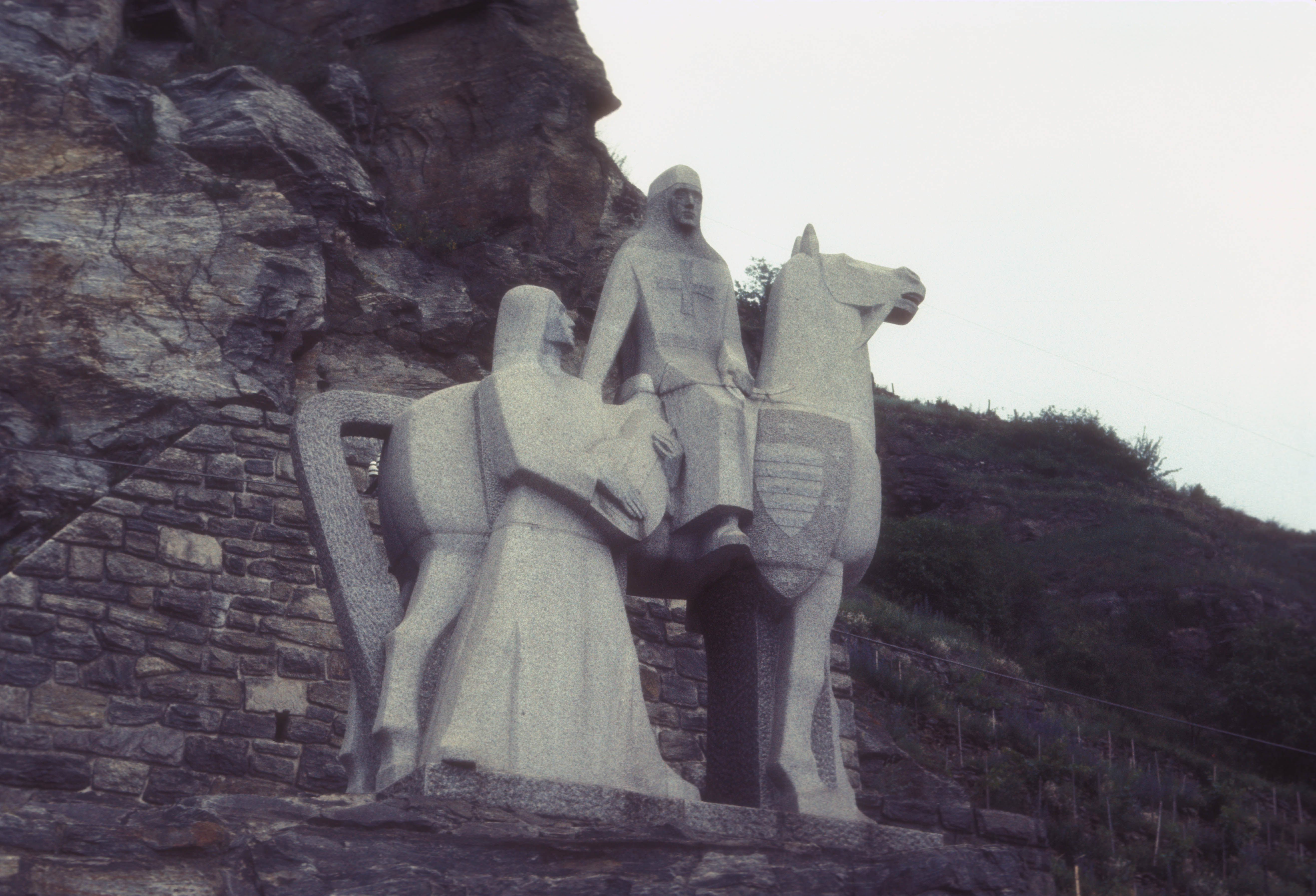 MINSTREL BLONDEL WHOSE SINGING LOCATED THE SITE OF IMPRISONMENT OF RICHARD I ON HIS WAY HOME FROM A CRUSADE. DURNSTEIN CASTLE IS IN THE WACHAU VALLEY AND IS NOW IN RUINS. SEE "DURNSTEIN" IN WIKIPEDIA